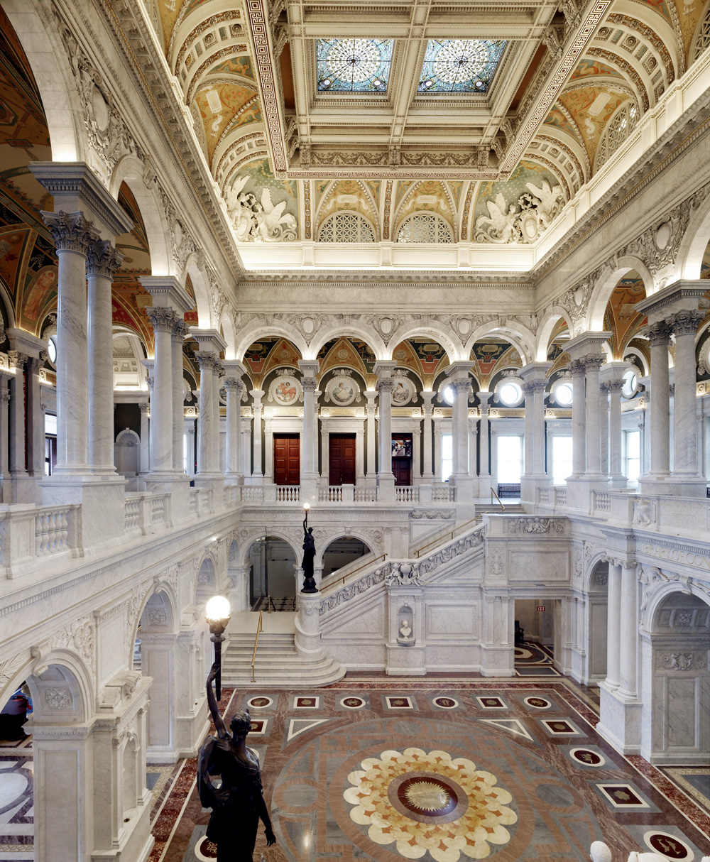 Thomas Jefferson Building Great Hall